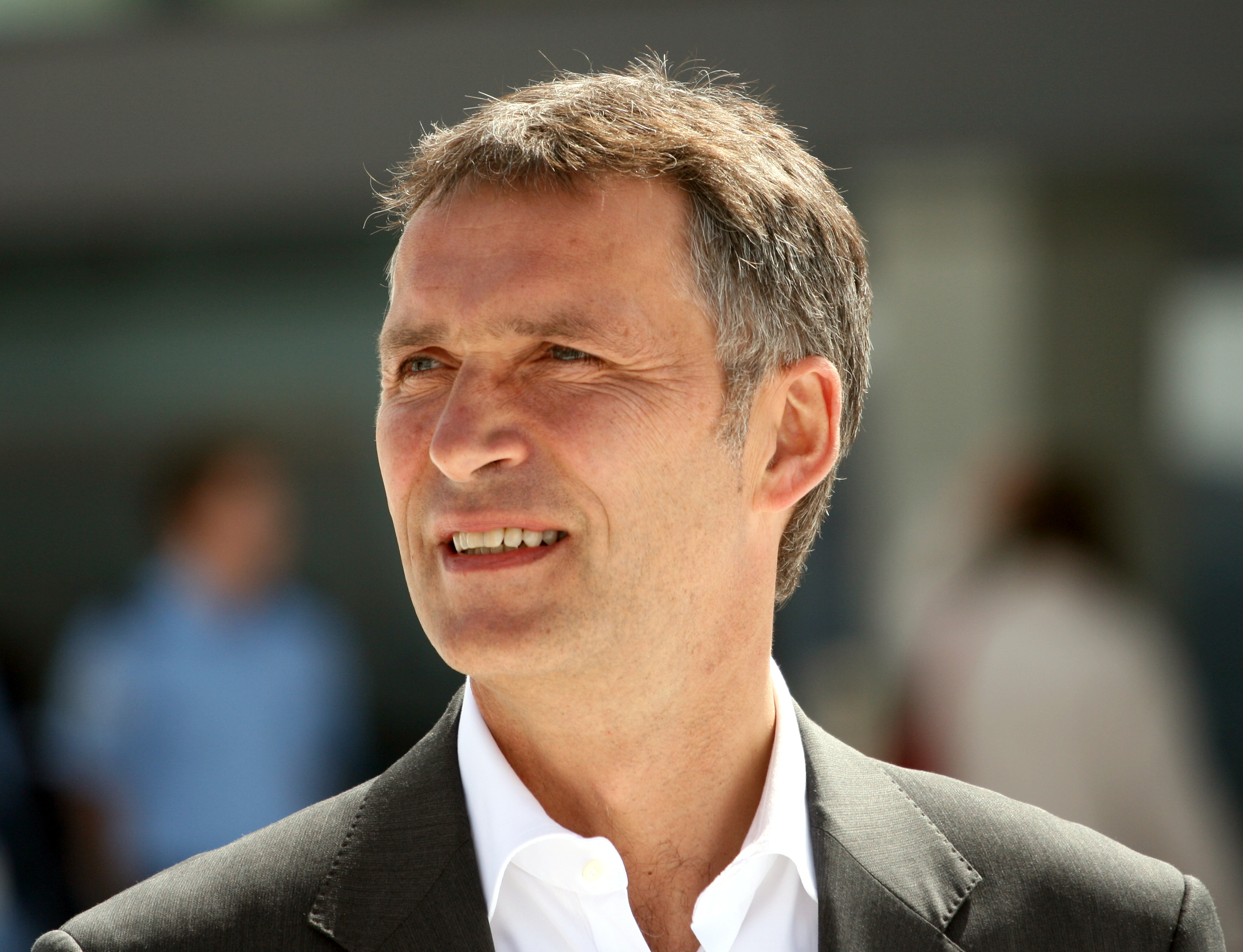 Prime Minister of Norway Jens Stoltenberg, attending the opera with Bill and Melinda Gates in 2009.